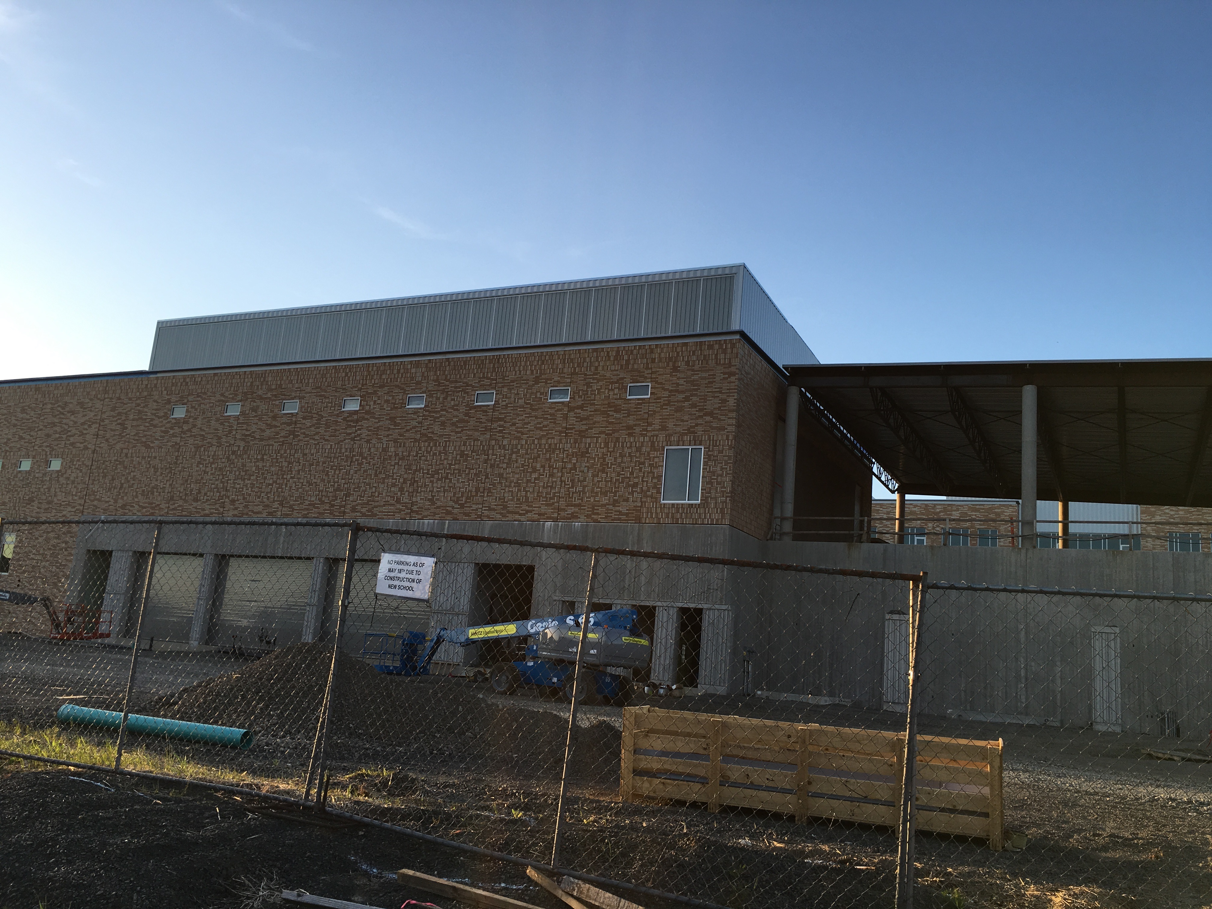 Construction of the Timberland middle school in Oregon. The school is set to open in the fall of 2017, and initially serve as a replacement for several other schools undergoing remodeling, before opening to middle school students in 2020.